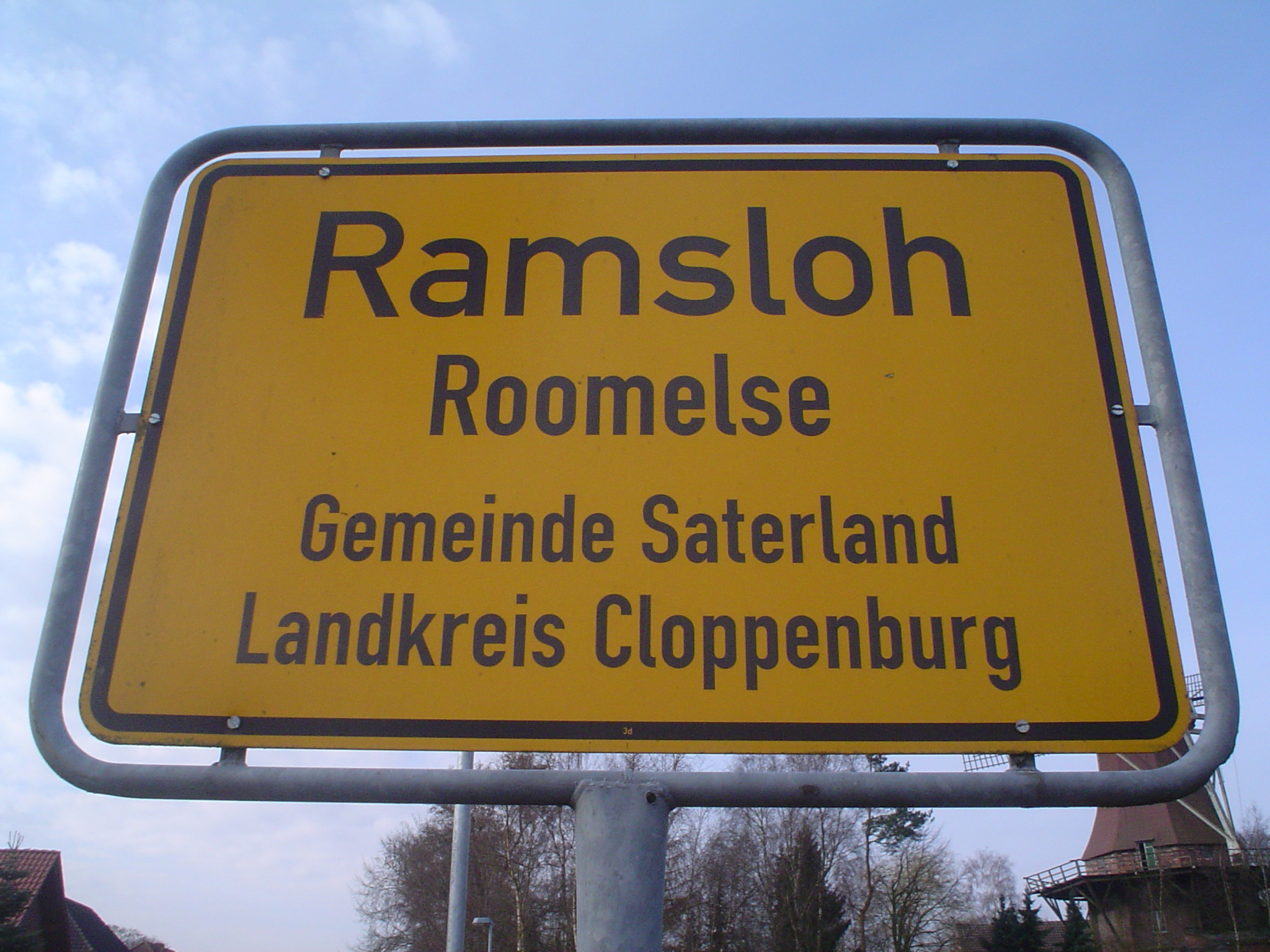 Billingual sign in the Frisian speaking territory of East-Frisia. Seeltersk: Steedeschild fon Roomelse.